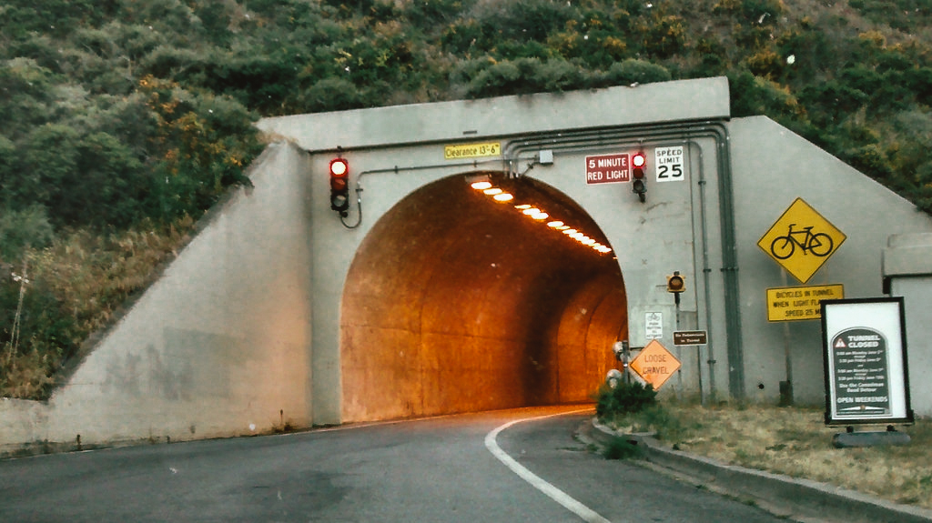 5 Minute Red Light Marin County, CA